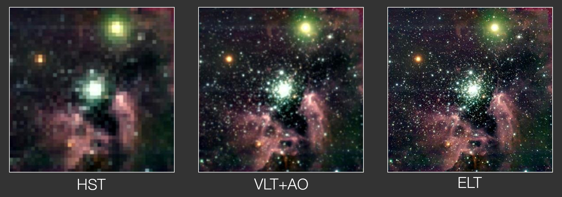 Space Telescope, ESO’s Very Large Telescope with the help of its adaptive optics modules, and the future Extremely Large Telescope. NGC 3603 is a star-forming region in the Carina spiral arm of the Milky Way, 20 000 light-years away from Earth. Note that this illustration is approximate.